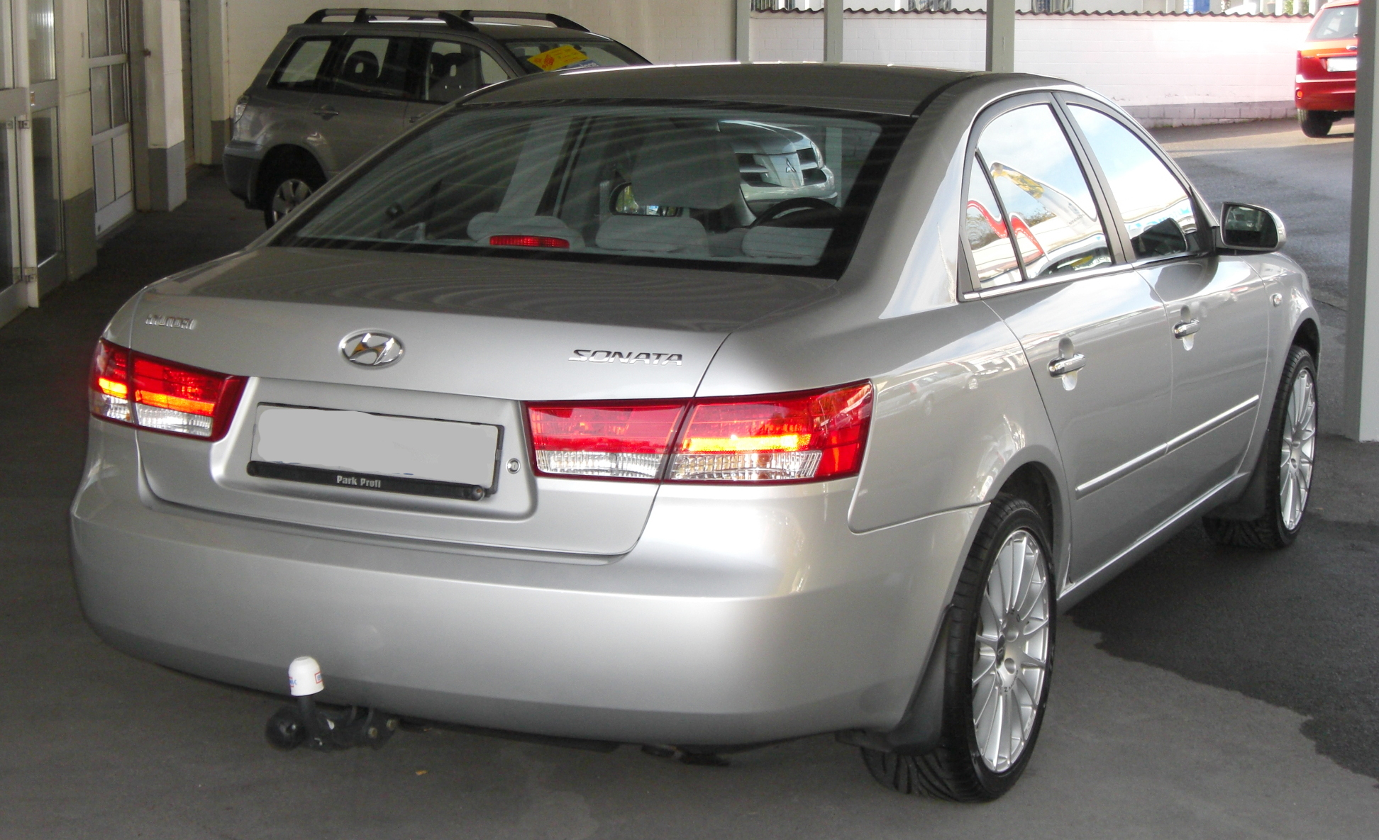 Description: Hyundai Sonata IV Source: Matthias Other Version(s)